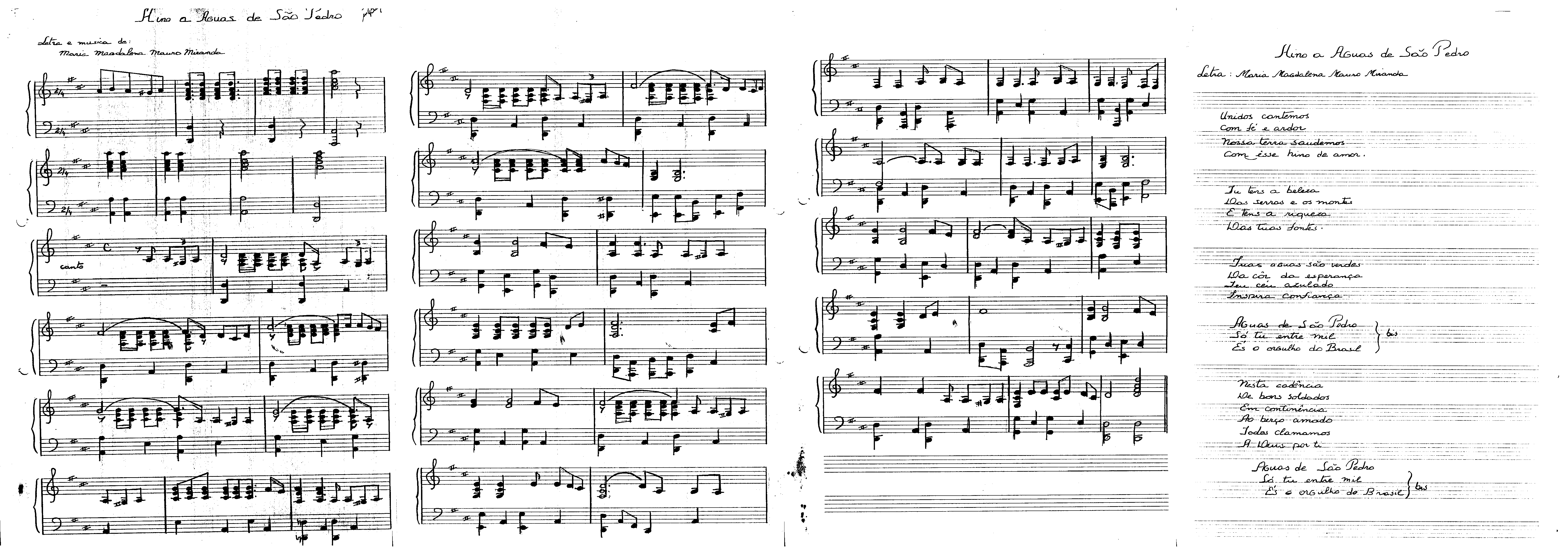 Sheet music for "Hino a Águas de São Pedro." Individual sheets taken from the Águas de São Pedro Municipal Council and arranged by uploader.